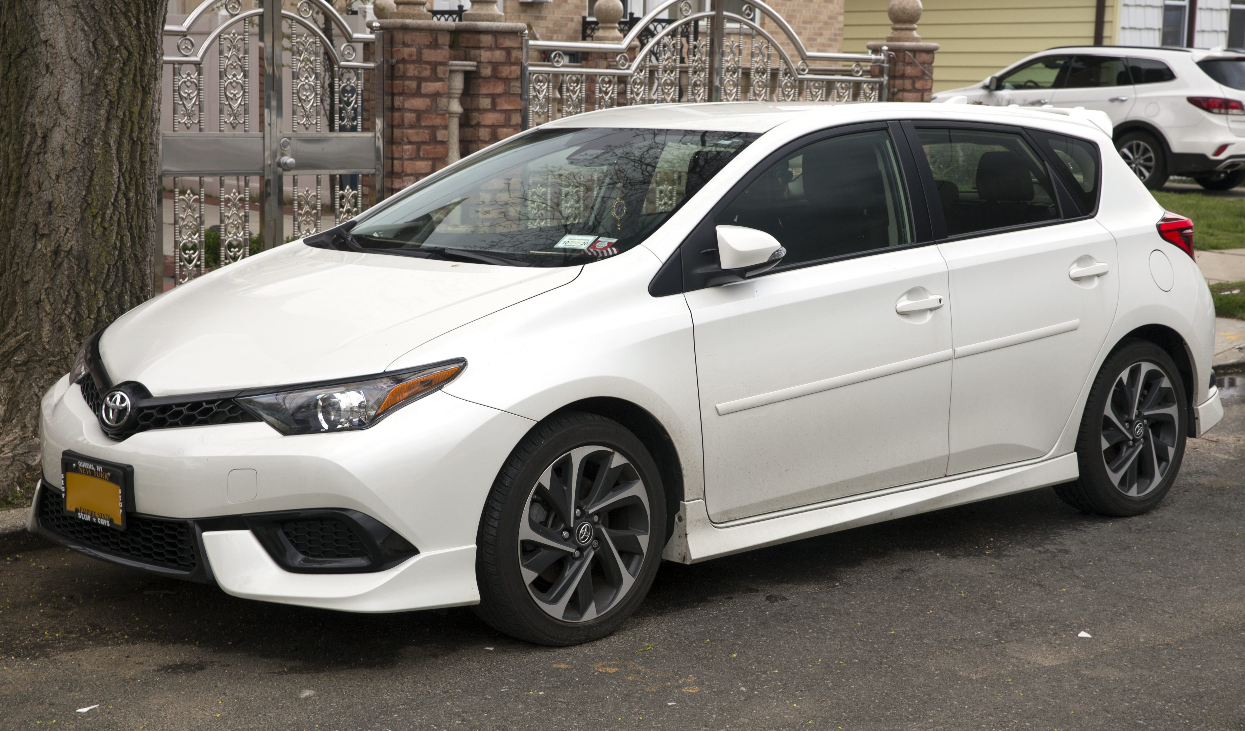 A 2018 Toyota Corolla iM base model in white in South Ozone Park.